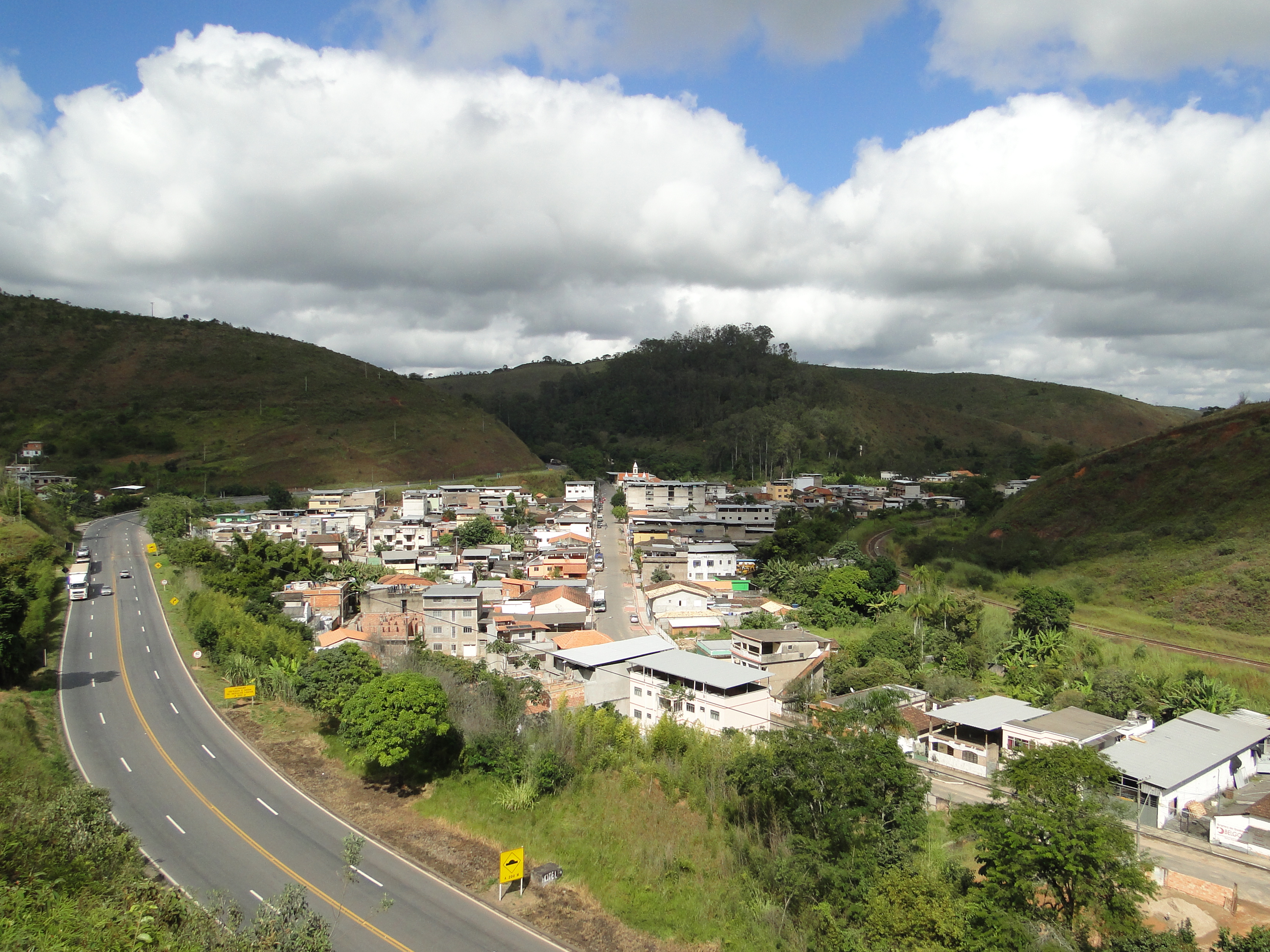 Partial view of Ewbank da Câmara taken from a traditional spot, Ewbank da Câmara, Brazil